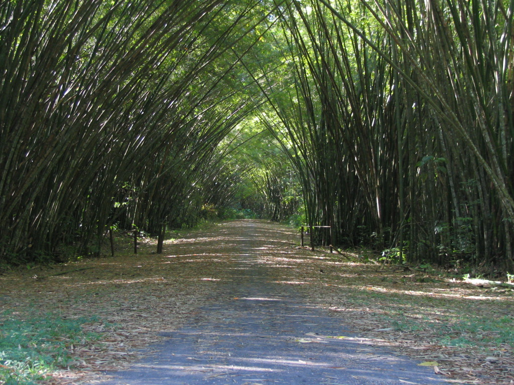 Bamboo Cathedral on the road to the Tracking Station in Chaguaramas, Trinidad and Tobago